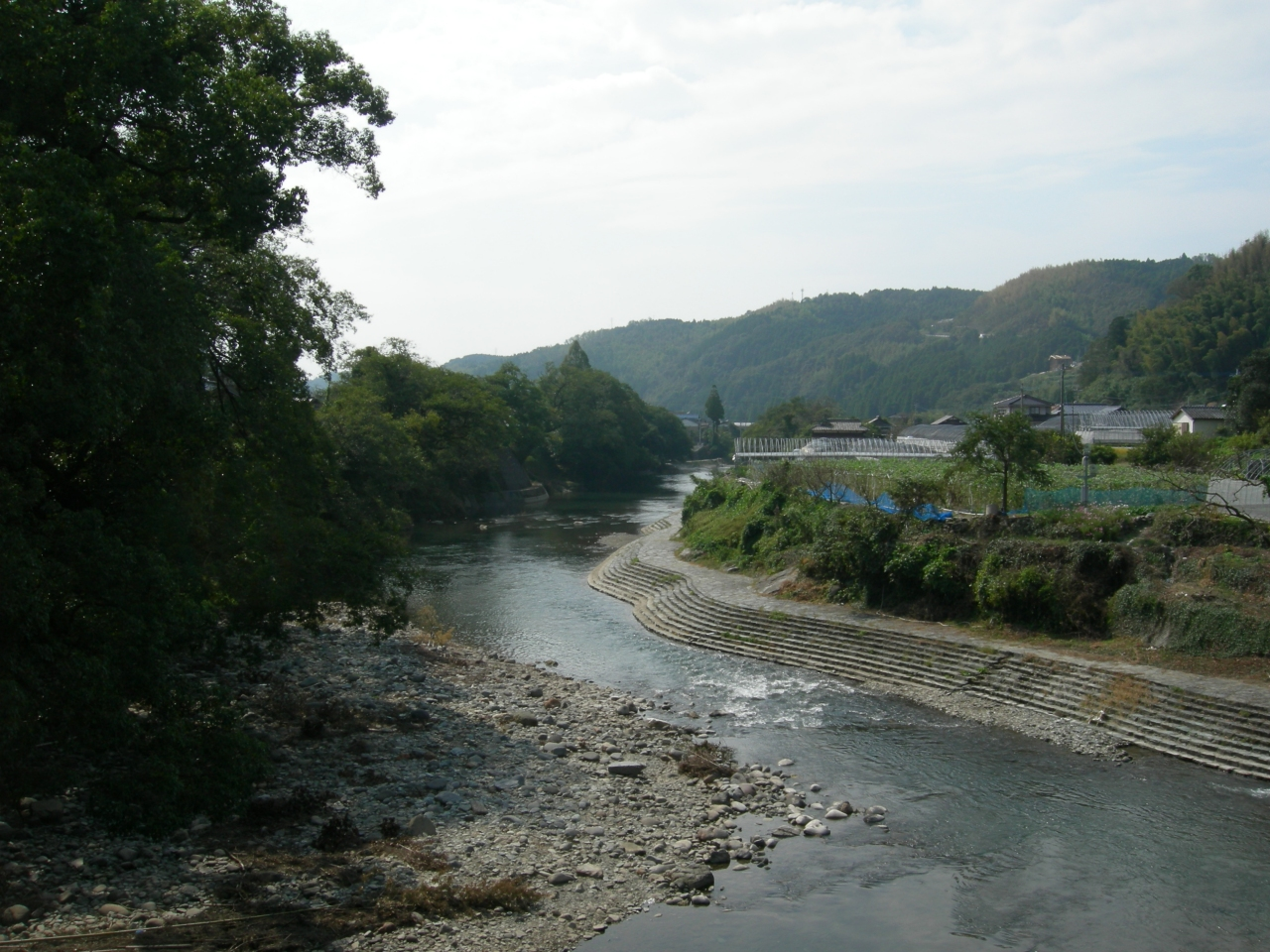 Hoshino river in or near Yame, Fukuoka, Japan